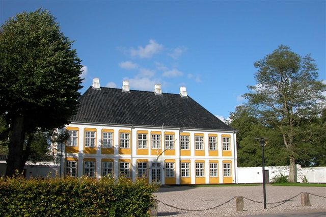 Sandbjerg Manor at the Sundewitt Peninsula